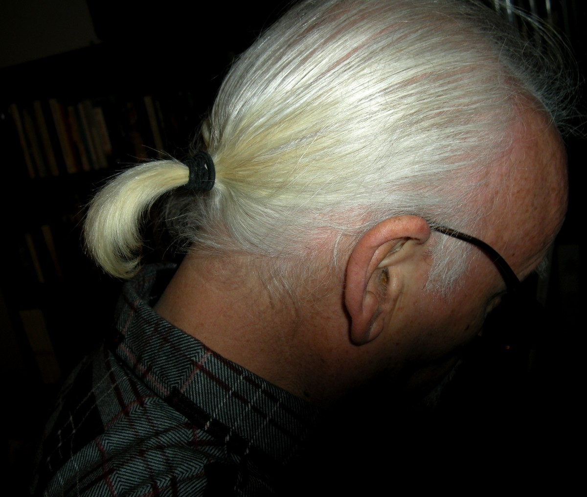 Man's white-haired ponytail on a black background.